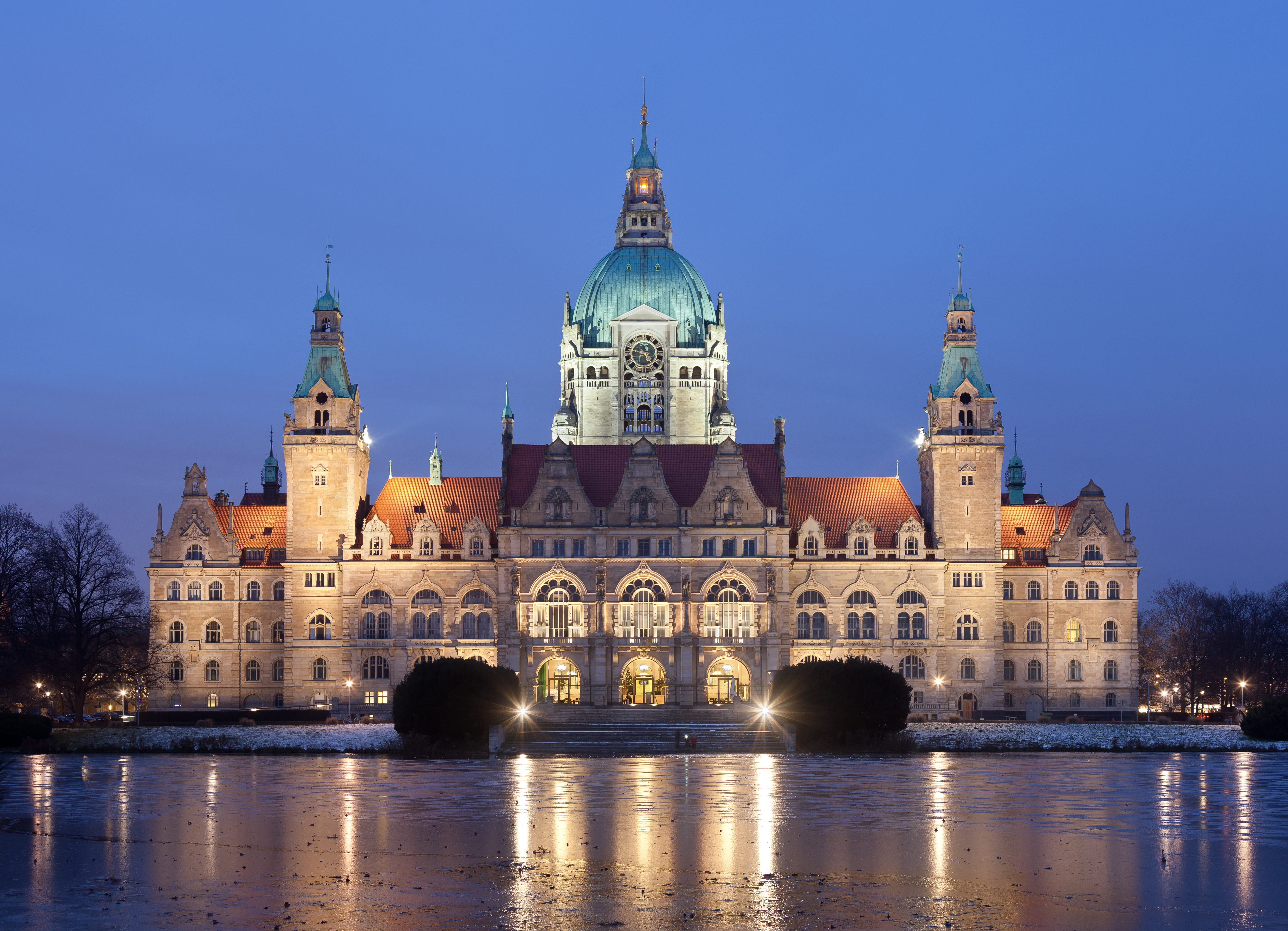 New City Hall in Hanover, Germany